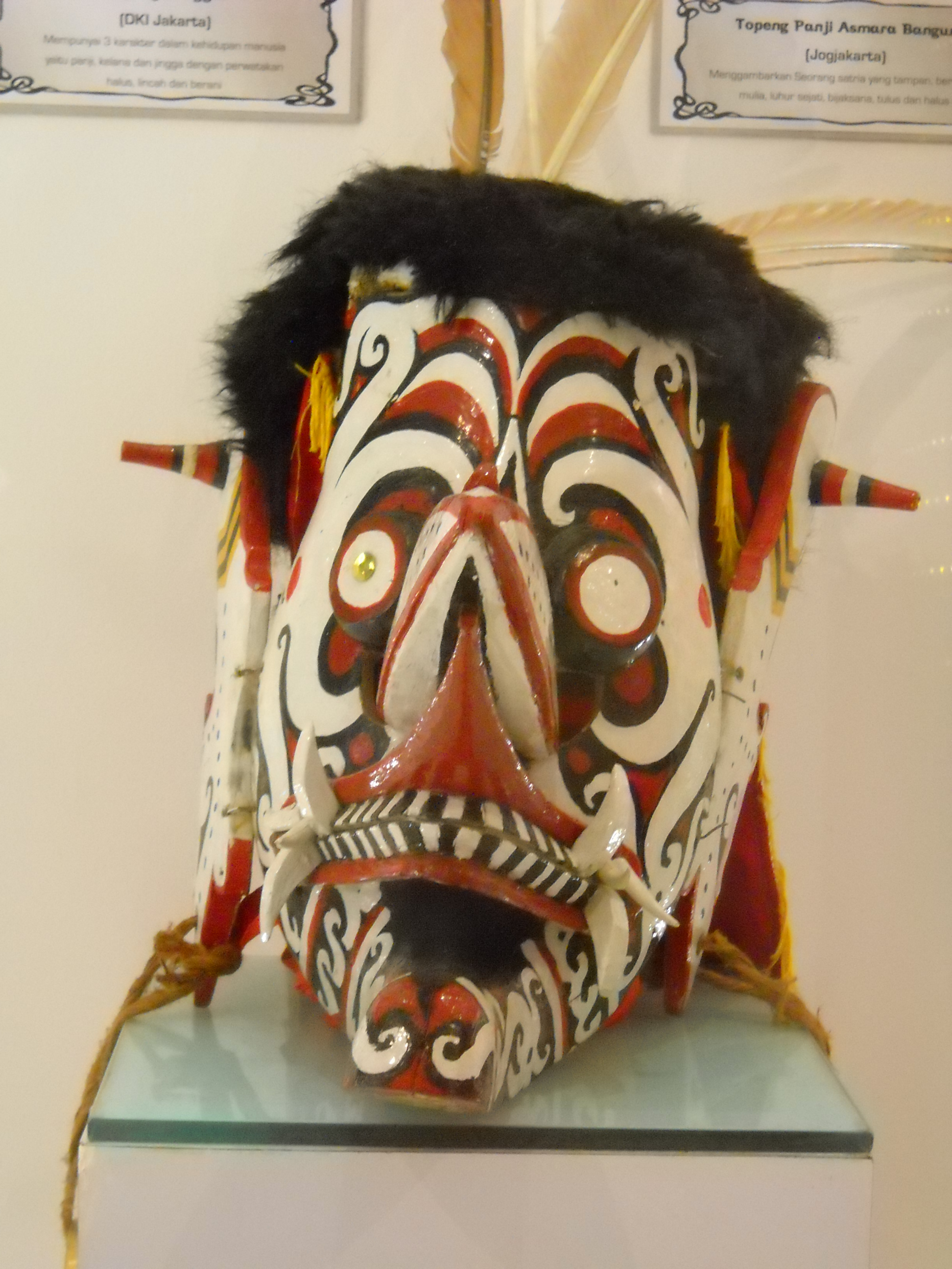 Hudoq mask of Dayak people from East Kalimantan, Indonesia.